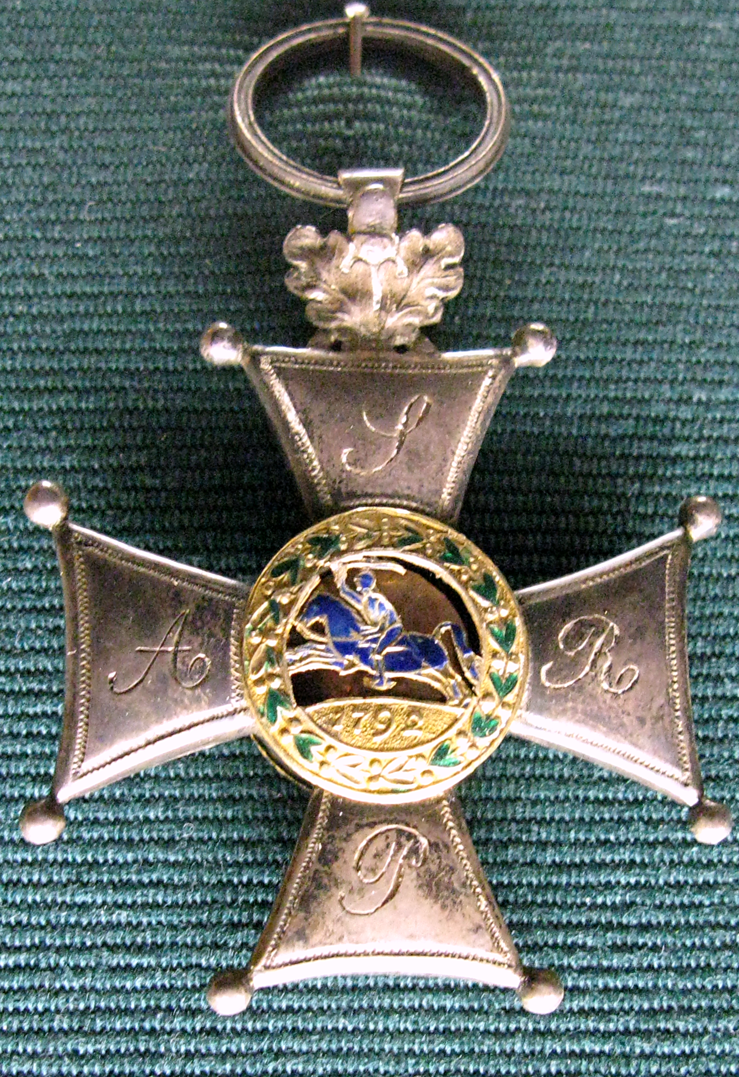 Silver Cross of Virtutu Militari Order before 1831